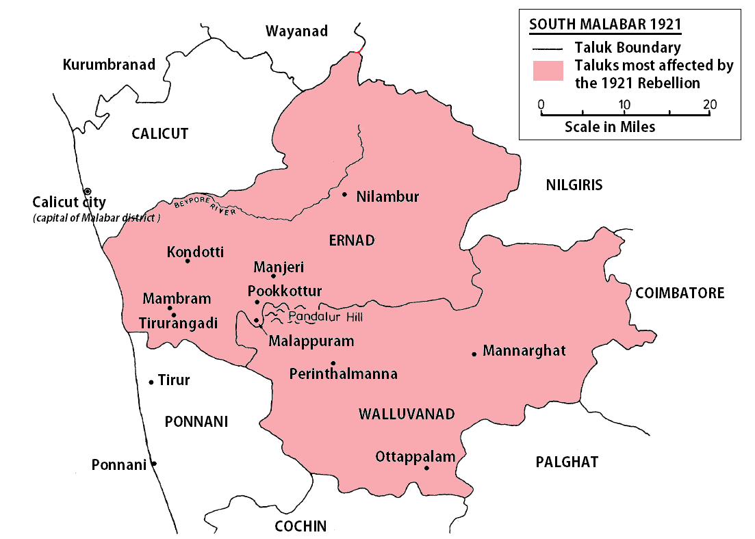 South Malabar in 1921. Areas affected by the Malabar Rebellion